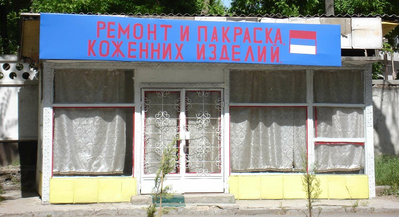 Dushanbe, Tajikistan. The small workshop for leather clothes repairment.